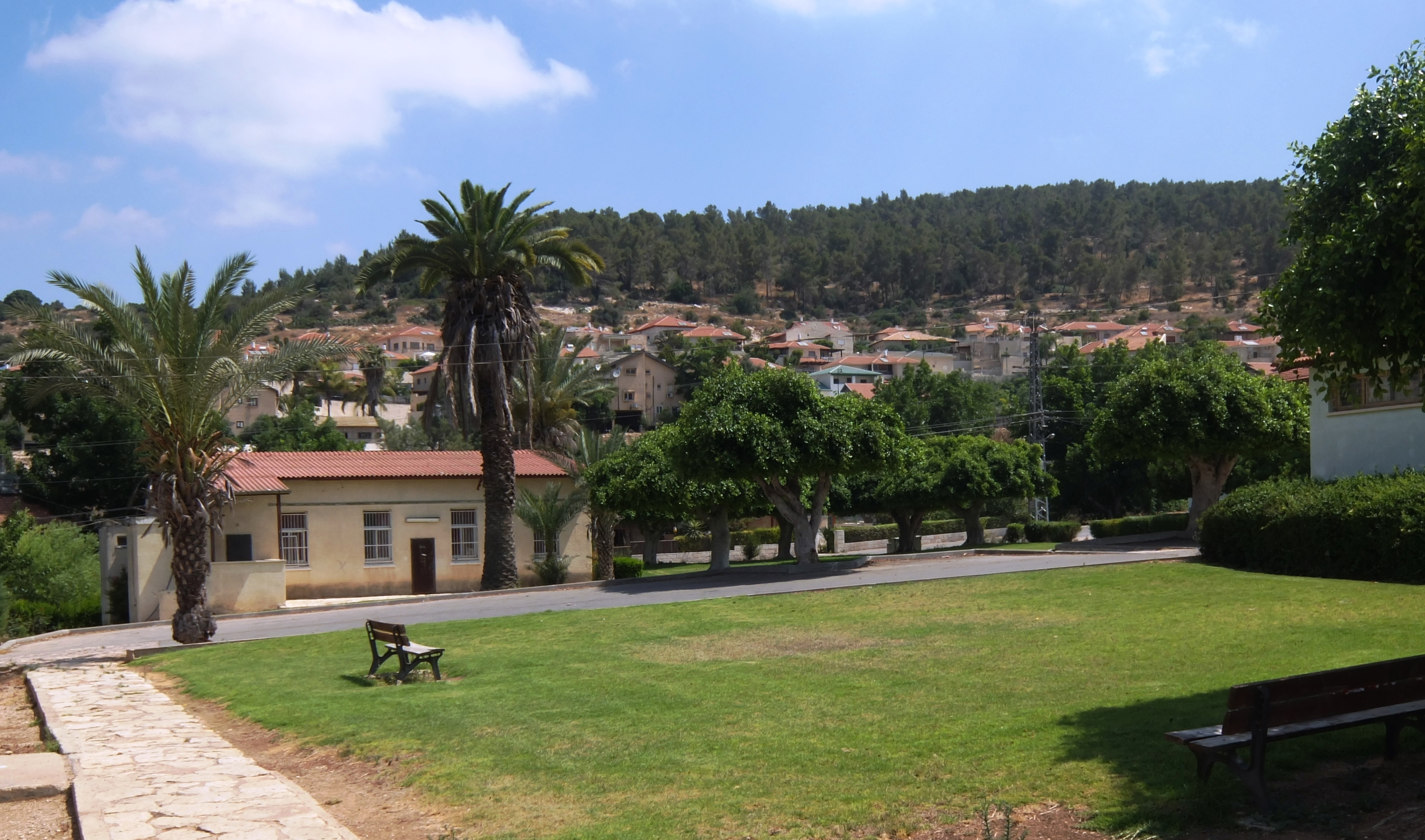 General view of Israeli Moshav, Bayt Zakariah